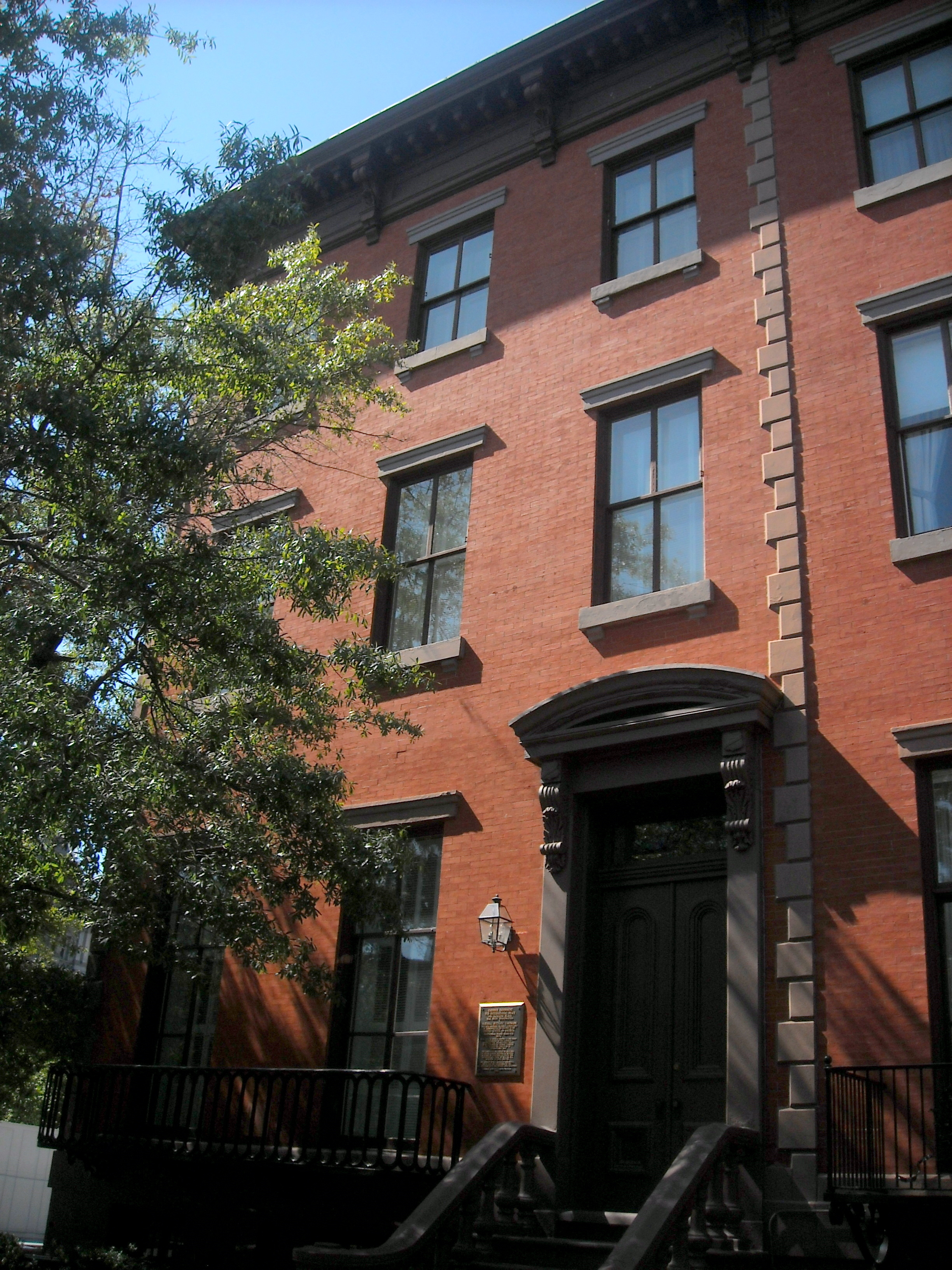 The former headquarters of the Carnegie Endowment for International Peace (CEIP), located at 700 Jackson Place, N.W., in Washington, D.C. The building is situated directly across from the Old Executive Office Building, on the northwest corner of Jackson Place and Pennsylvania Avenue. Built in 1860 as the private residence of physician Peter Parker (known as the "father" of medical missions to China), the brick, Italianate-style row house served as offices for the Bureau of Pan American Republics (precursor to the Organization of American States) from 1888 to 1908, and as the national headquarters for the CEIP from 1910 until 1948. The building is now part of the Blair House complex – comprised of four, adjoining row houses which serve as the official residence for guests of the President of the United States. The CEIP former headquarters was designated as a National Historic Landmark (NHL) on May 30, 1974; in addition, the building is designated as a contributing property to the Lafayette Square Historic District, designated a NHL historic district on August 29, 1970.